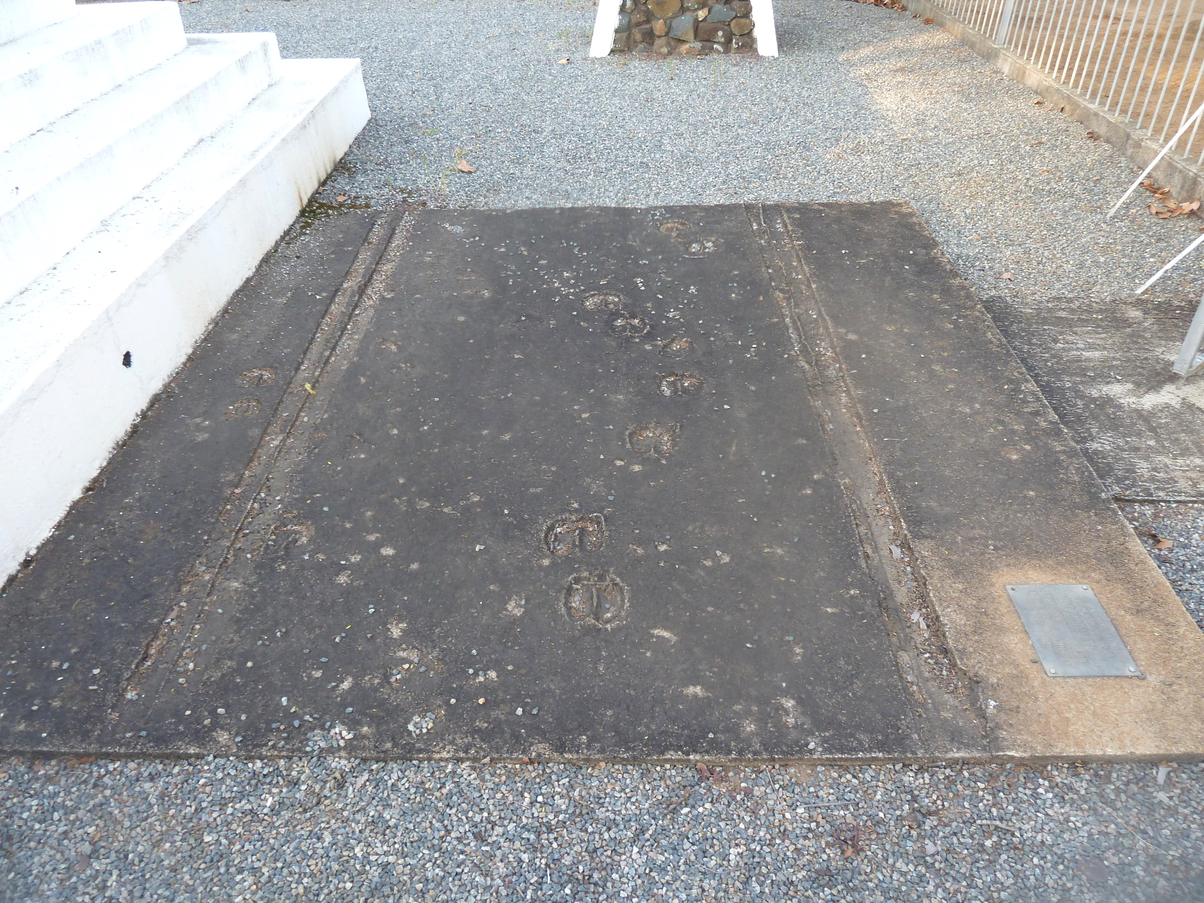 Tracks of the Louis Trichardt wagon from the 1938 commemorative trek, at the NG church, Piet Retief, Mpumalanga